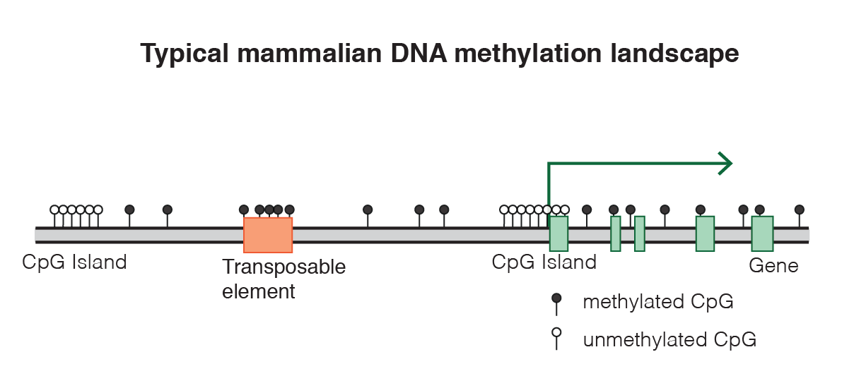 DNA methylation landscape in mammals